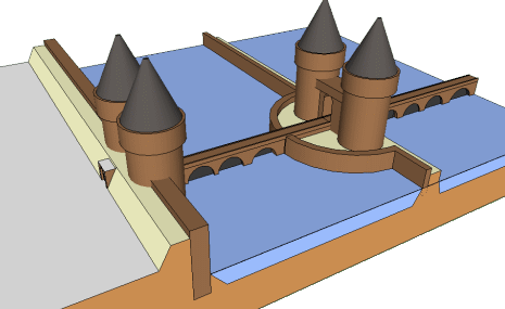 Barbacane Bredevoort reconstruction